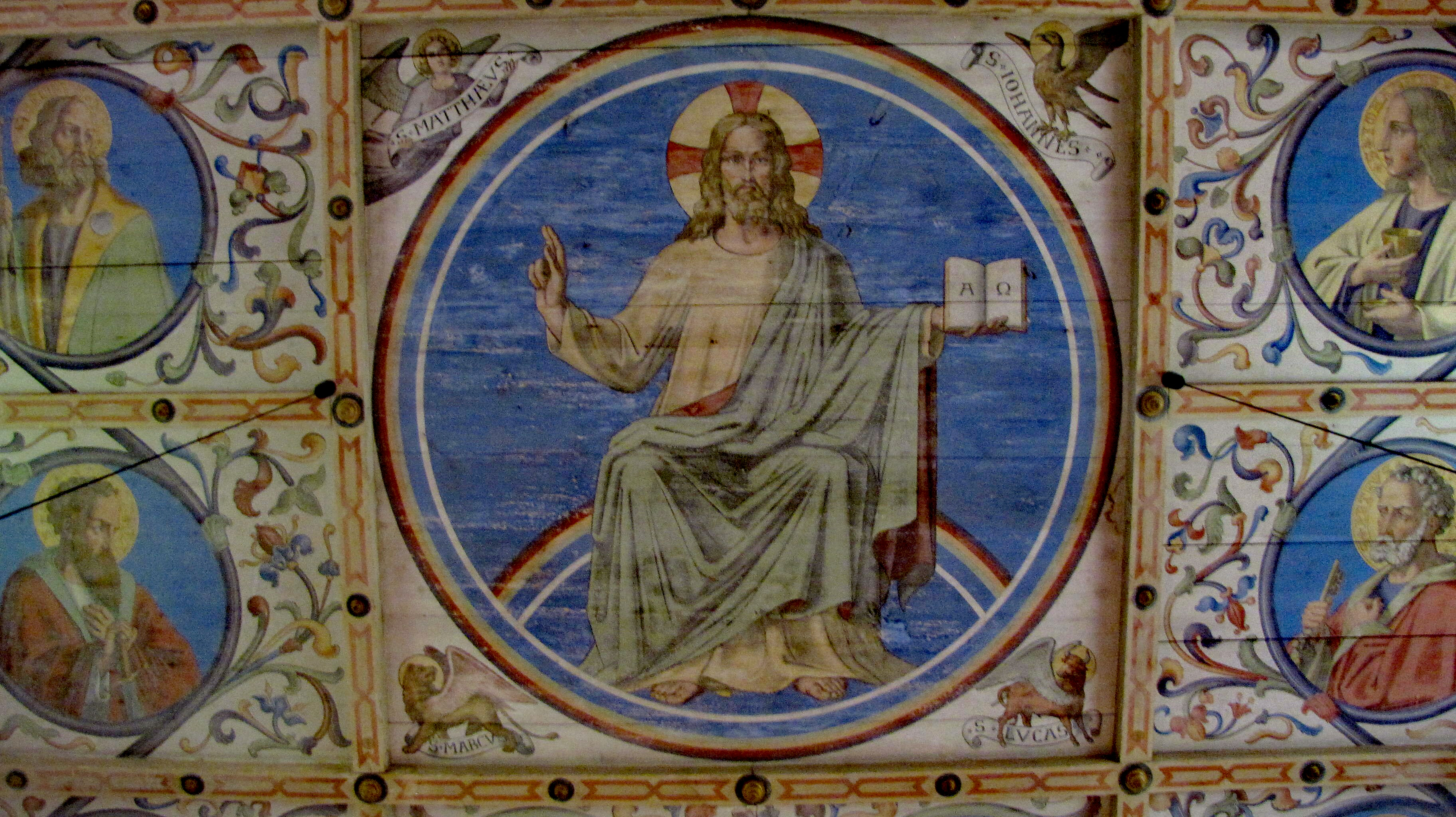 Interior of Dorfkirche Semlow